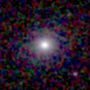 Galaxy NGC 432